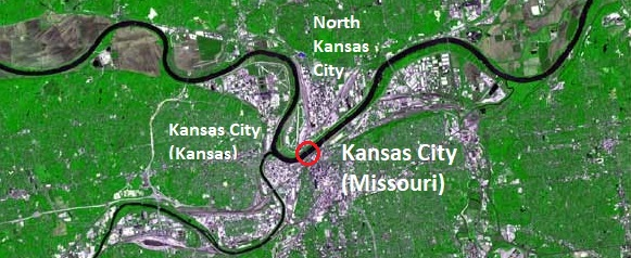 Kansas City satellite image with marked position of Hannibal Bridge (red circle)